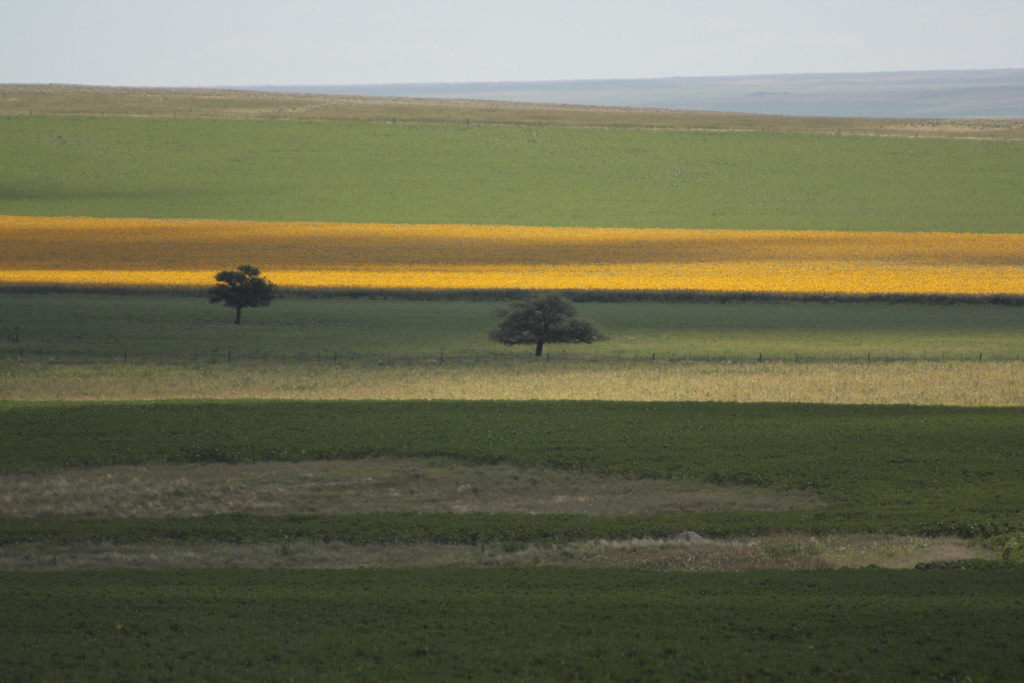 Road to Sierras de Cordoba (Cordoba mountain range), Argentina.